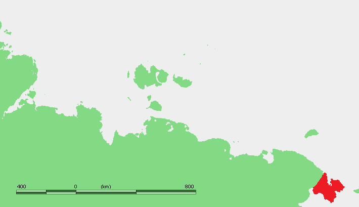 location map